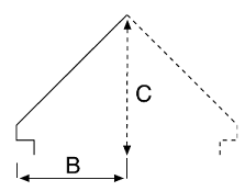 Efektyvaus stogo paviršiaus skaičiavimas